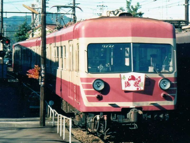 Oigawa Railroad EMU type 1000